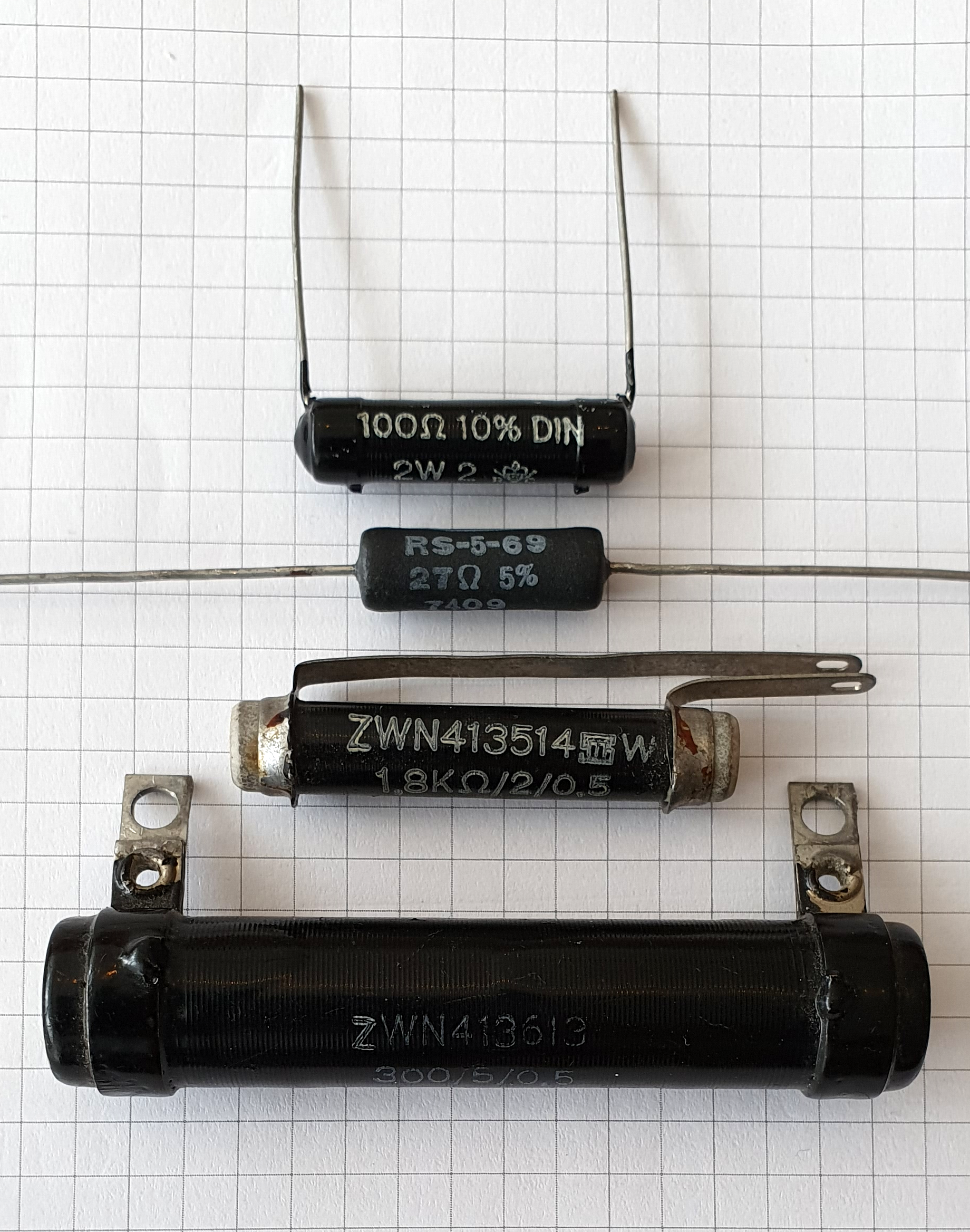 Picture of some wirewound resistors in THT (Through-Hole-Technic) and also for mechanical manufacturing (soldering and screwing lugs)